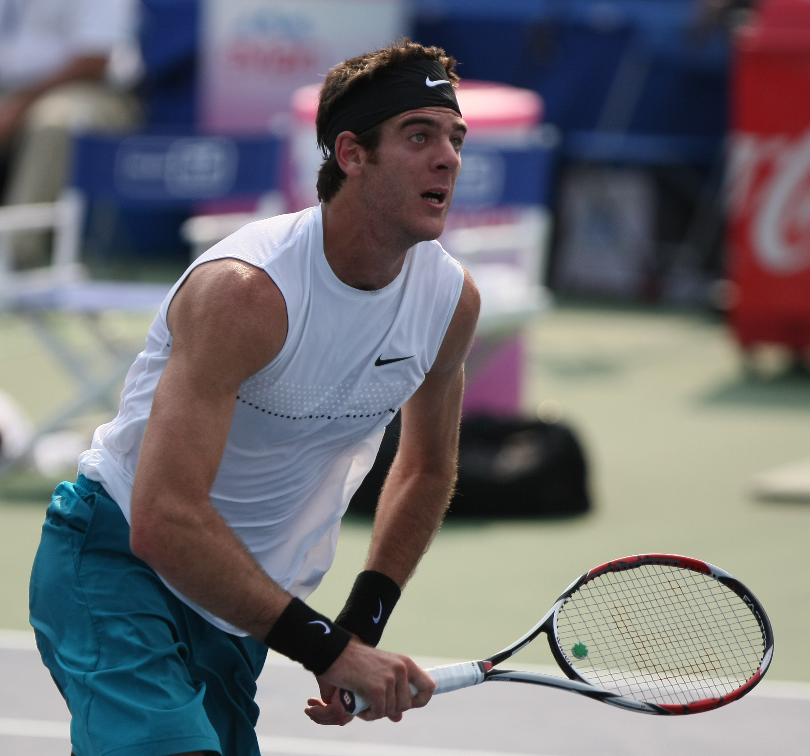 Legg Mason Tennis Tournament 08/08/09